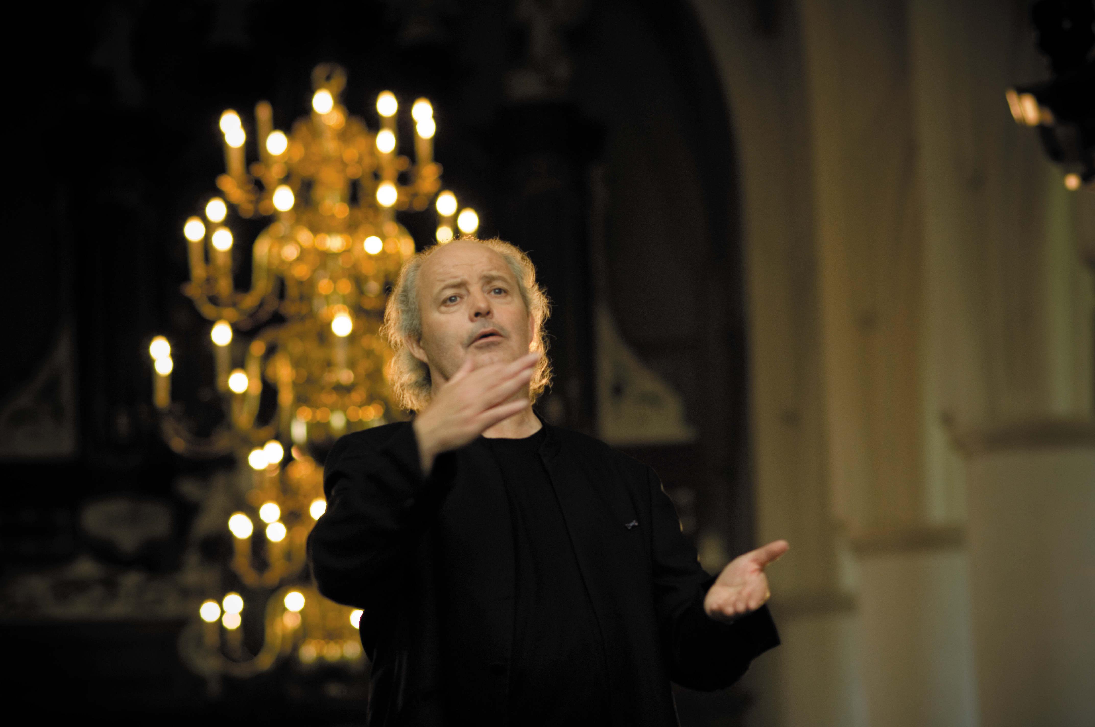 picture of Dutch conductor Pieter Jan Leusink